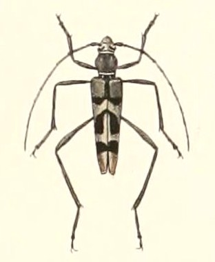 « Acrocyrtidus fasciatus » = Acrocyrtidus fasciatus